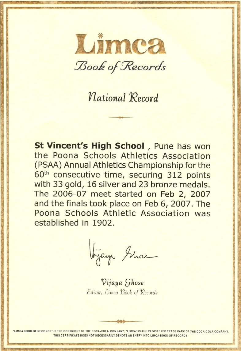 An image of the Limca Book of Records record held by St. Vincent's High School, Pune, India.